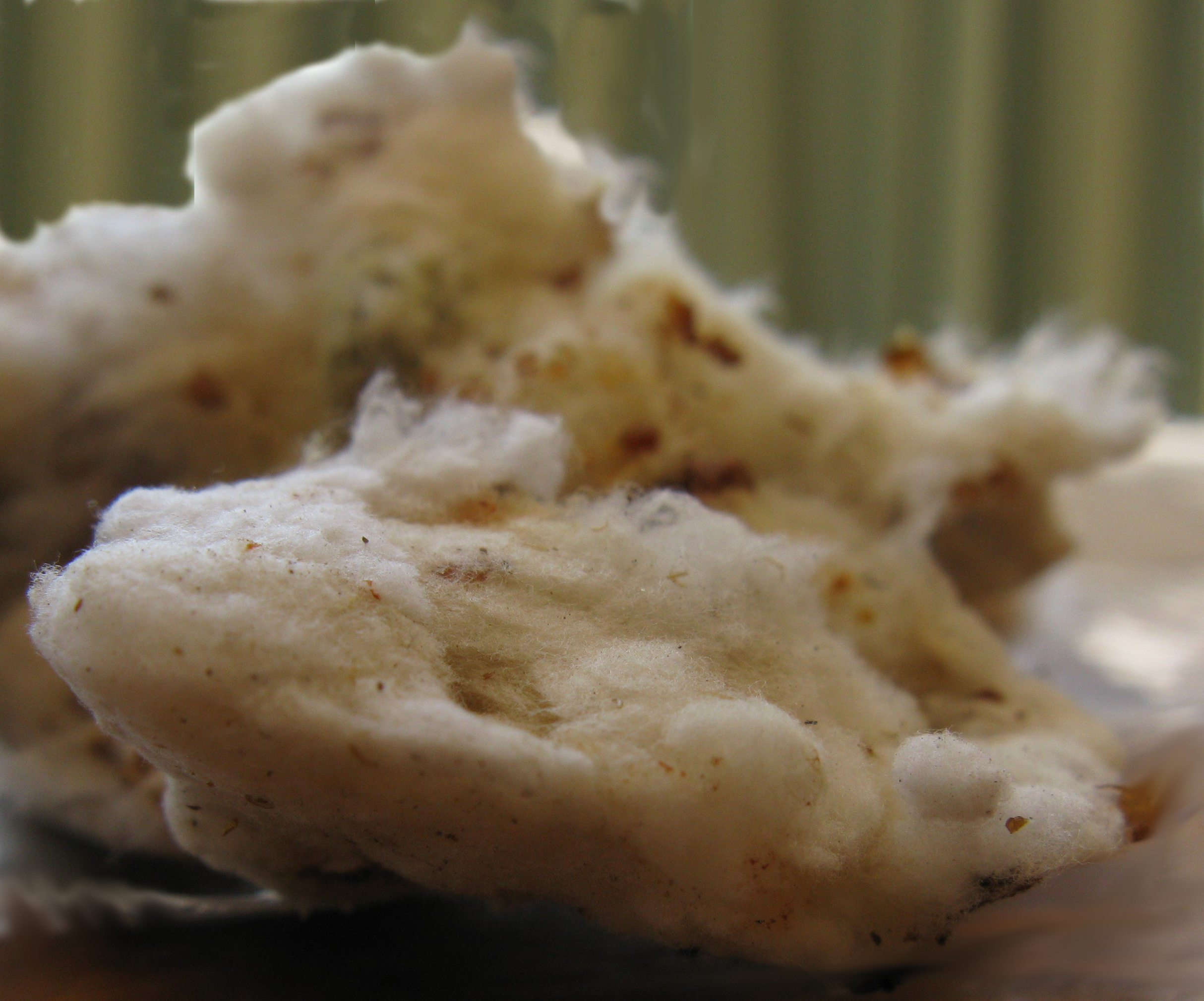 Nesting material of felted plant material. Taken from nest of carder bee in family Megachilidae. Probably in genus Anthidium